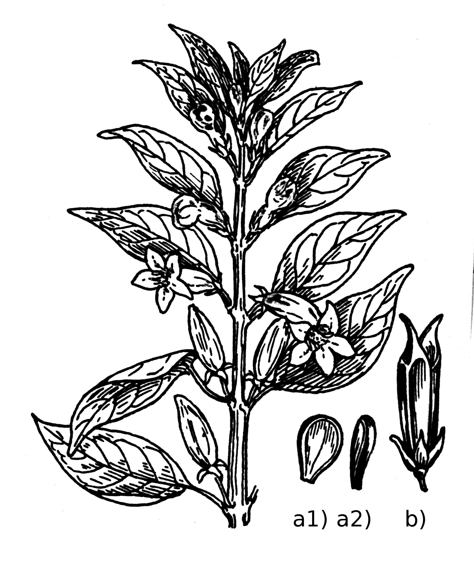 Line art drawing of a sesame. a1) and a2) are details of seeds, b) is a detail of pod.